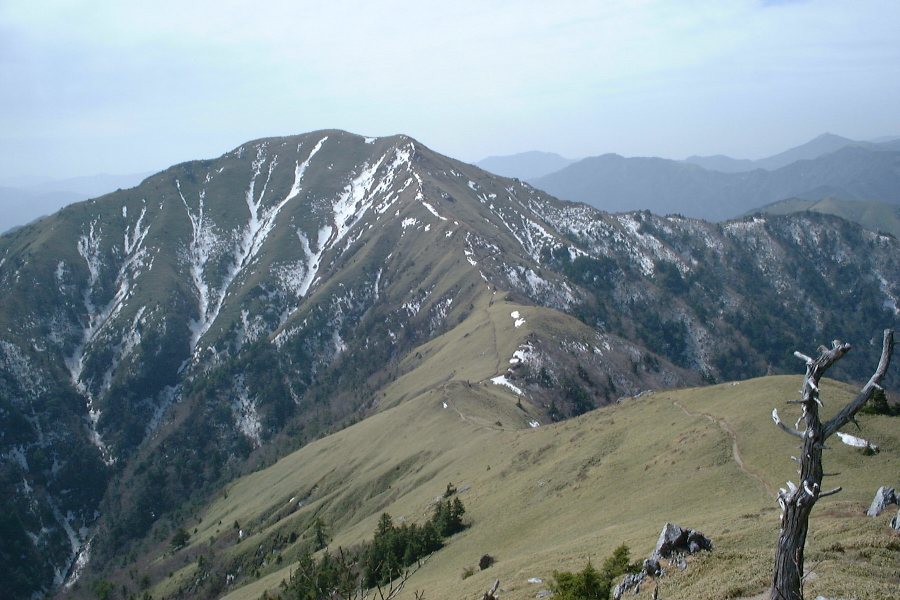 Mount Jirogyu as seen from the northeast. Taken from Mount Tsurugi.